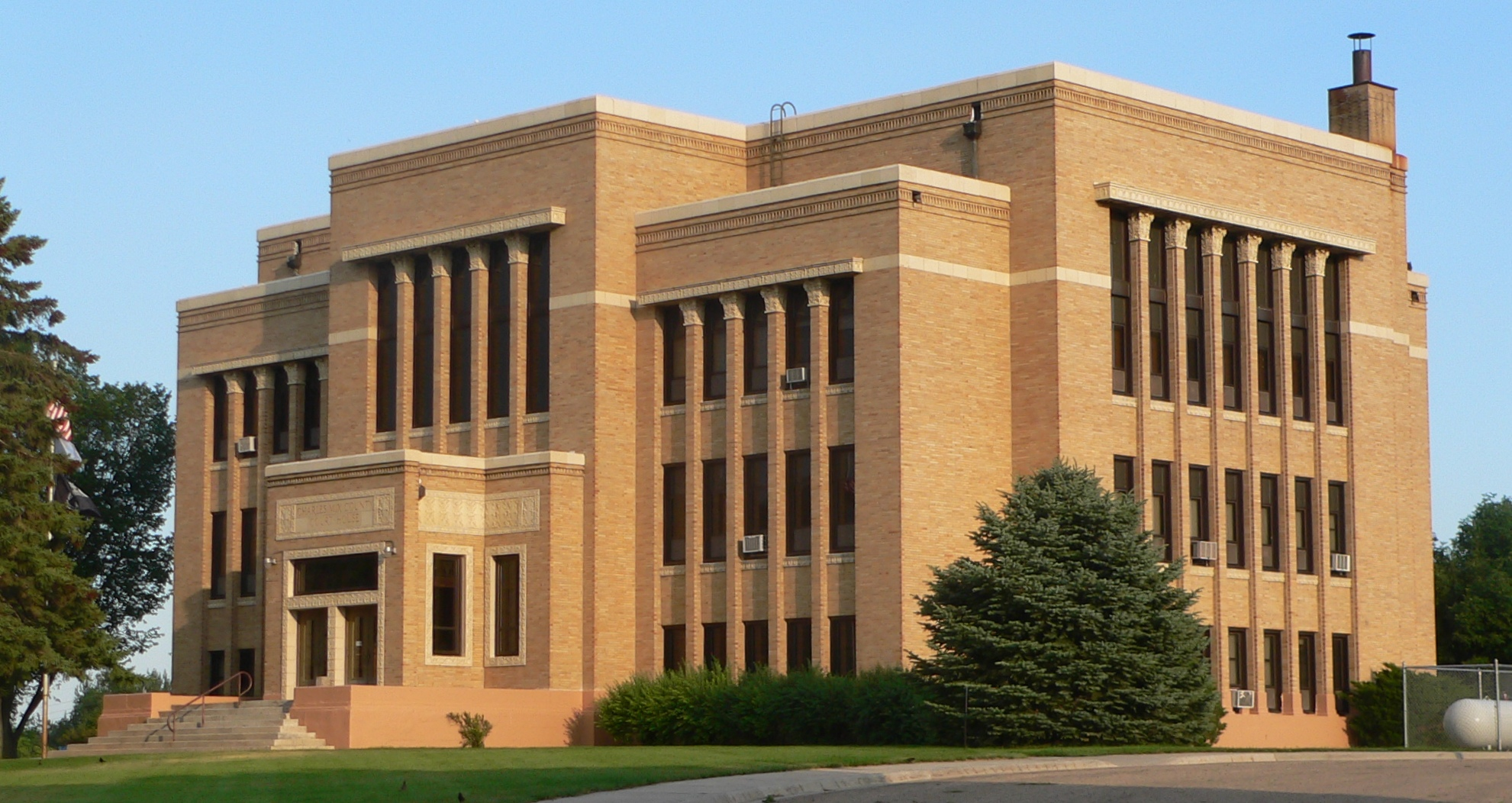 Charles Mix County Courthouse in Lake Andes, South Dakota; seen from the northwest.